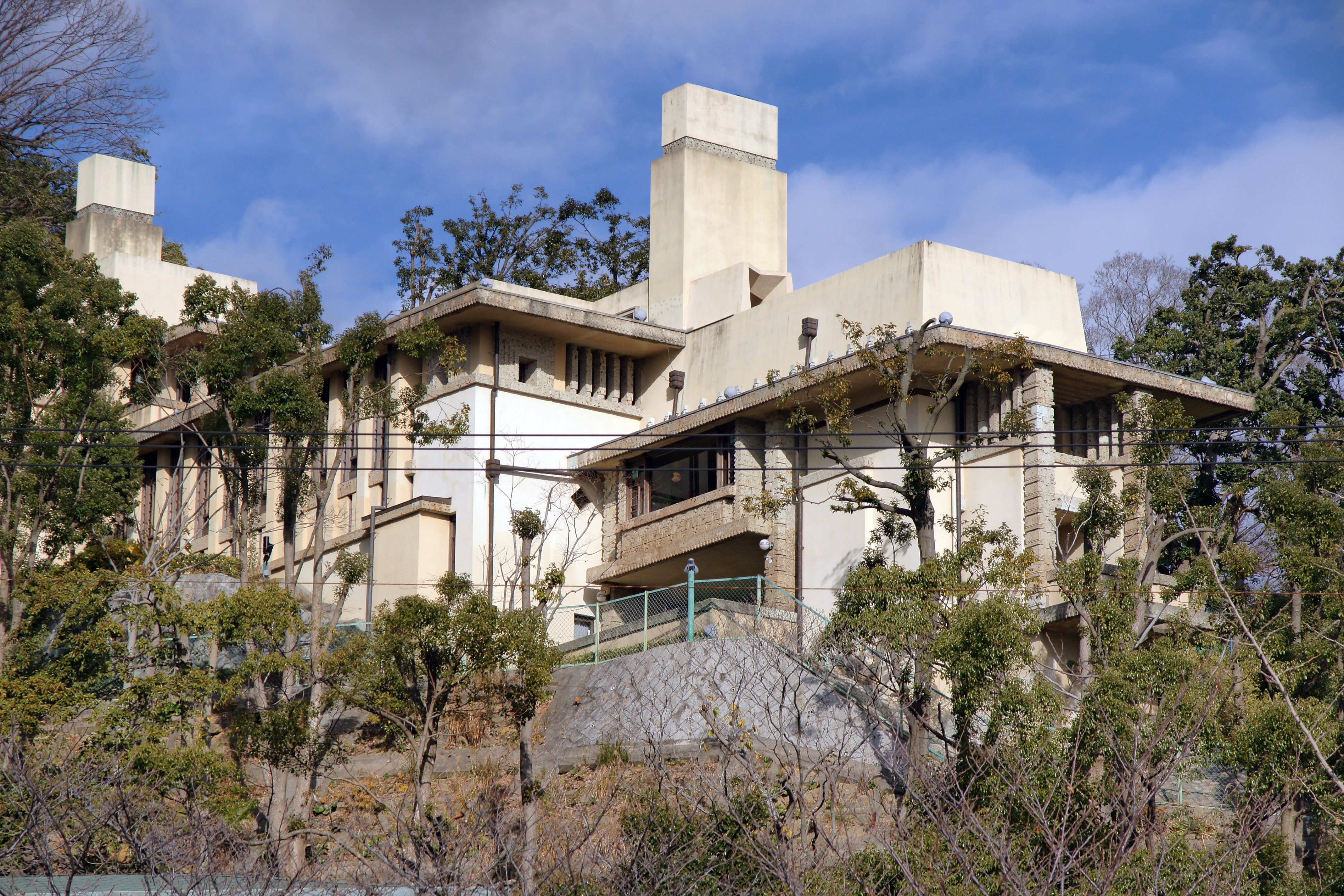 Yodoko Guest House (Yamamura House), Ashiya, Hyogo prefecture, Japan